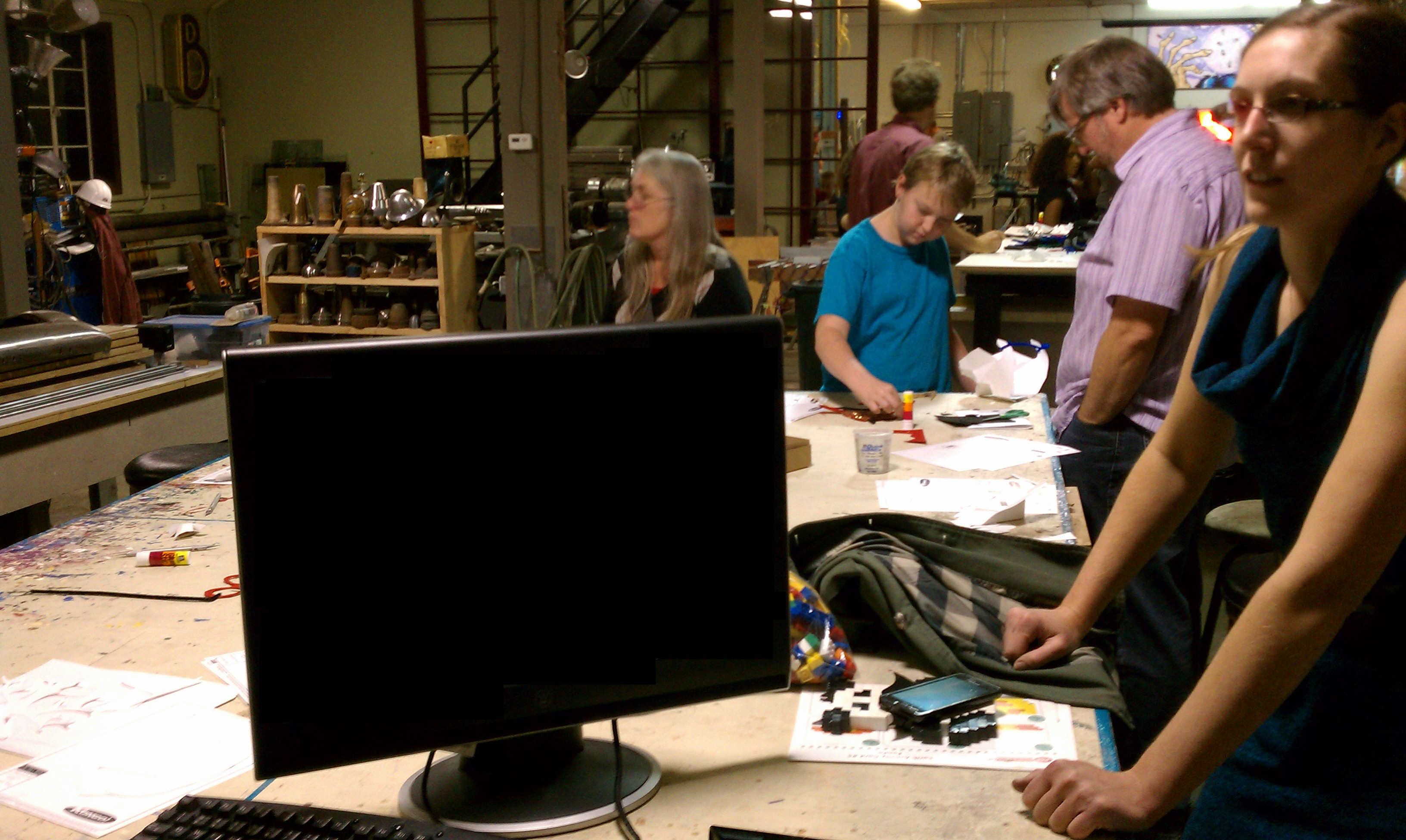 3-D scanning at a Boise Mini Maker Faire Meet-Up in October 2012 in Boise, Idaho.